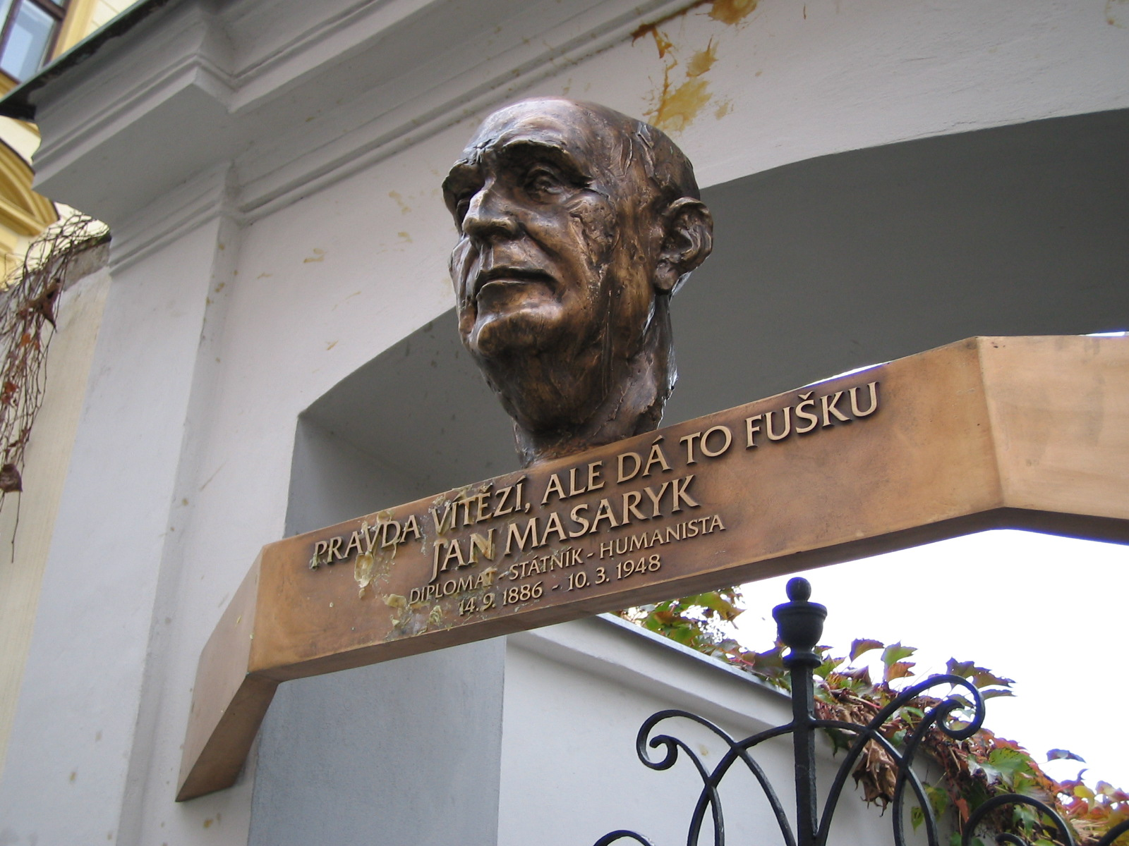 Memorial marker of Jan Masaryk in front of Prague Vila Osvěta; the text says Truth prevails, but it takes some elbow grease. Jan Masaryk, diplomat – statesman – humanist, 14. 9. 1886 – 10. 3. 1948